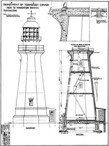 This is a construction plan for the concrete tower and iron light of the existing Low Point Lighthouse in New Victoria, Nova Scotia. This plan was produced by the Department of Transport Canada, Aids to Navigation Branch, in 1937 or earlier. This Lighthouse tower was completed in 1938, using the iron light from an earlier tower on the same site.